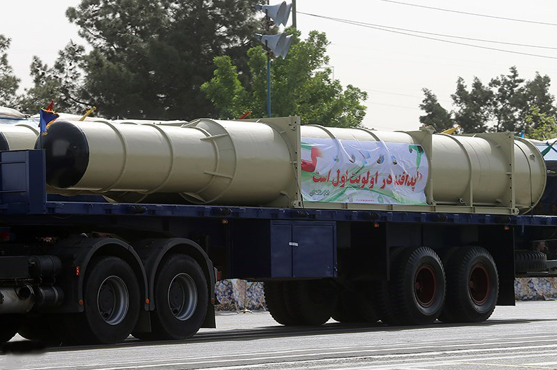 IRIADF 5T53M type transport containers, 5V28 type missile of S-200 type SAM system. Title is wrong, this is not Bavar 373 component